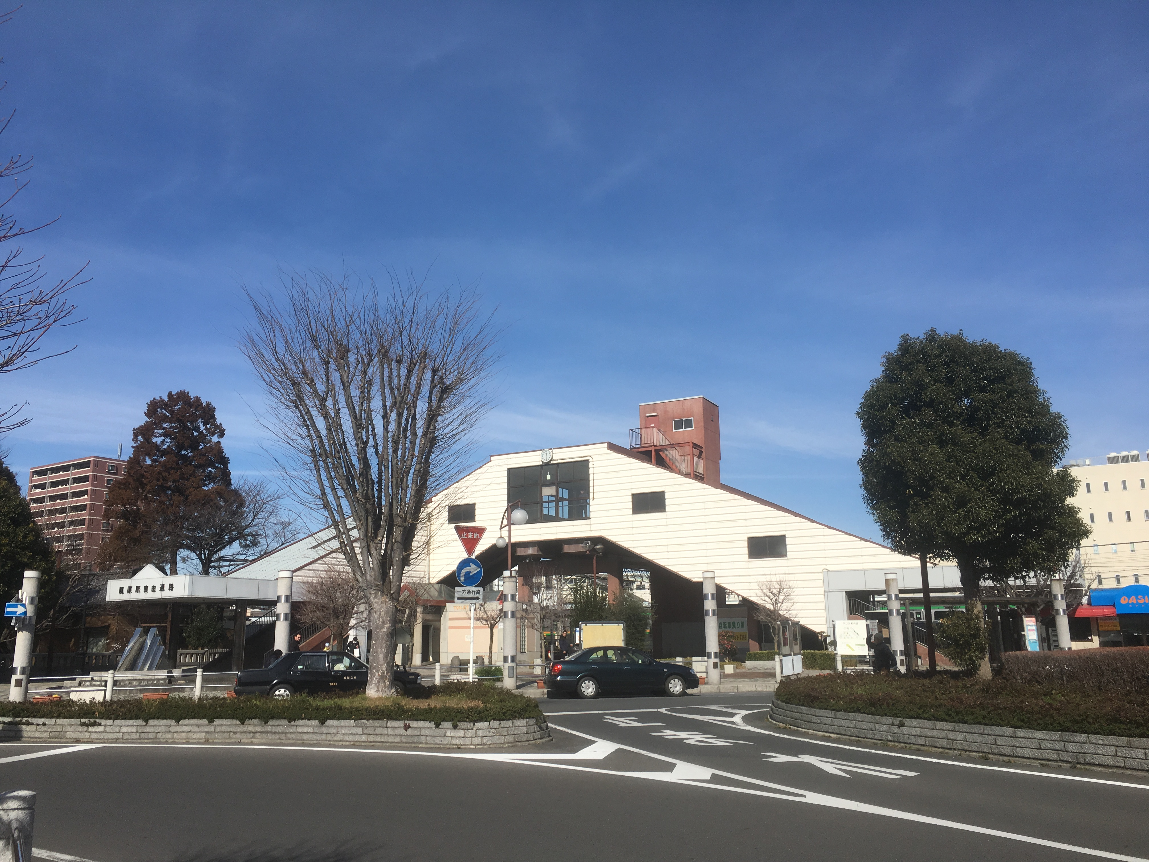 Kagohara Station south exit (籠原駅の南口)